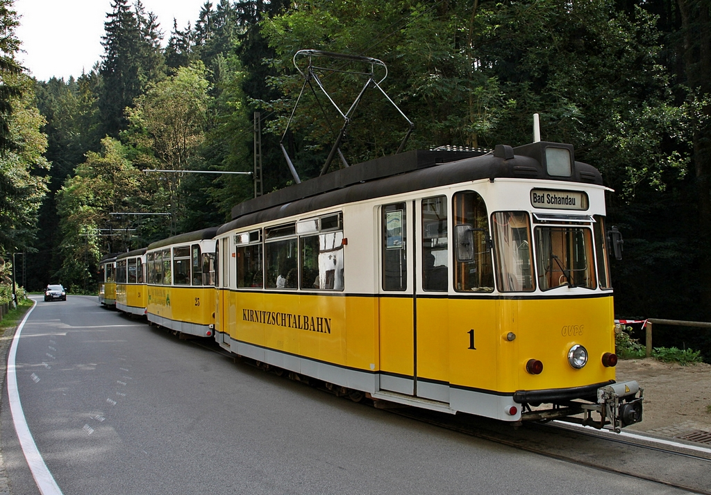 This image shows a train of the Kirnitzschtal Tramway at the station „Beuthenfall“.